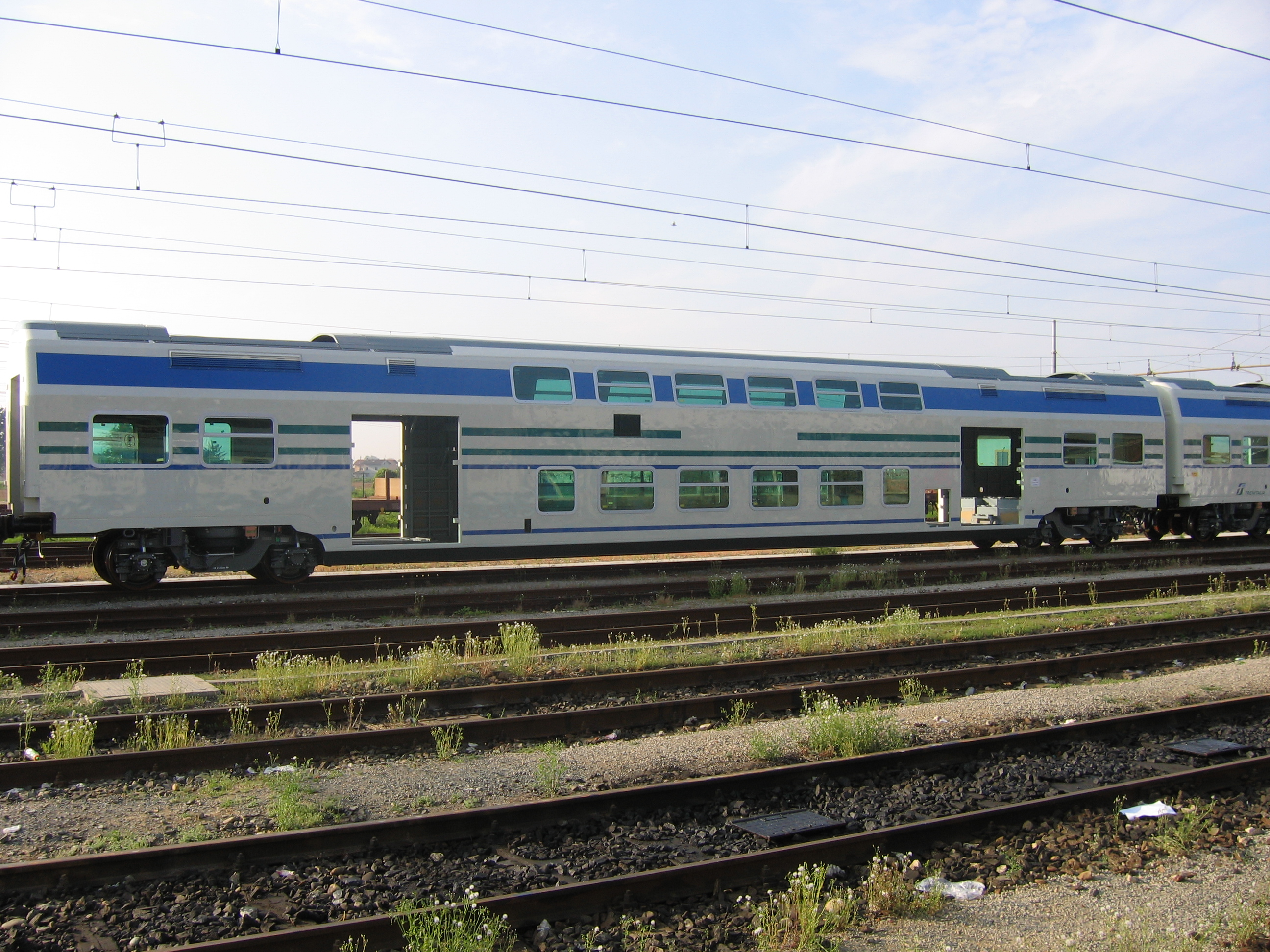 "Vivalto" frames being delivered to Santhià station for completion in Magliola Workshops. Santhià (TO), Italy